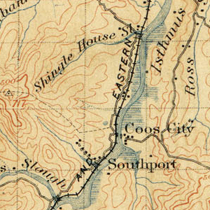 Topographic map showing Southport and Coos City, Oregon, dated 1896.